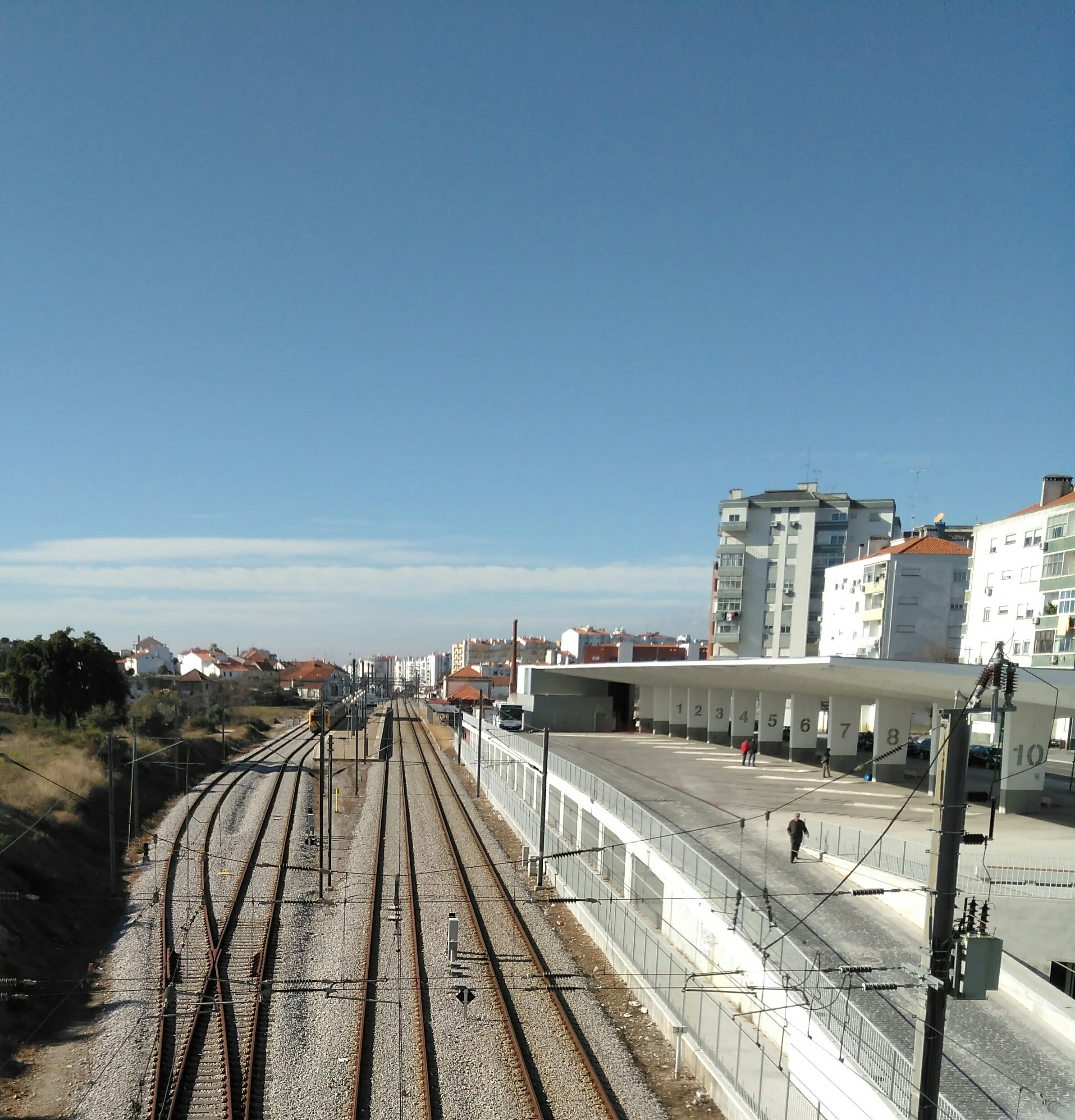 Perspective of both the train and bus station of Castelo Branco, Portugal